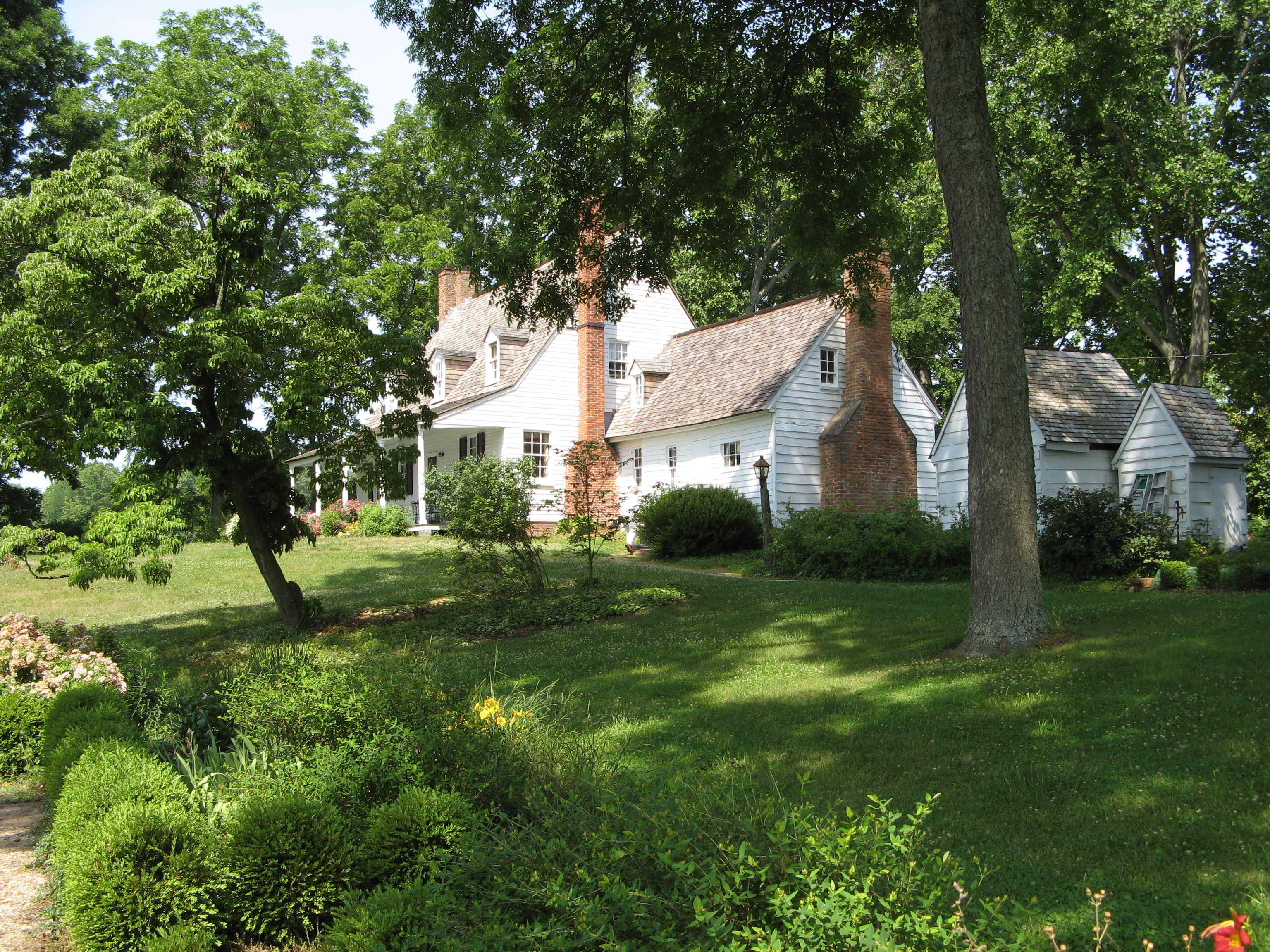 Maidstone Planatation house viewed from the back on June 7, 2007